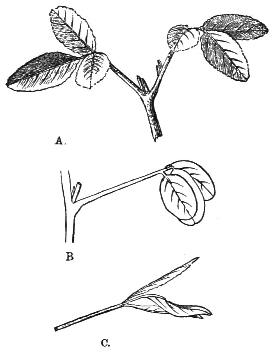 Melilotus officinalis in diurnal and nocturnal state